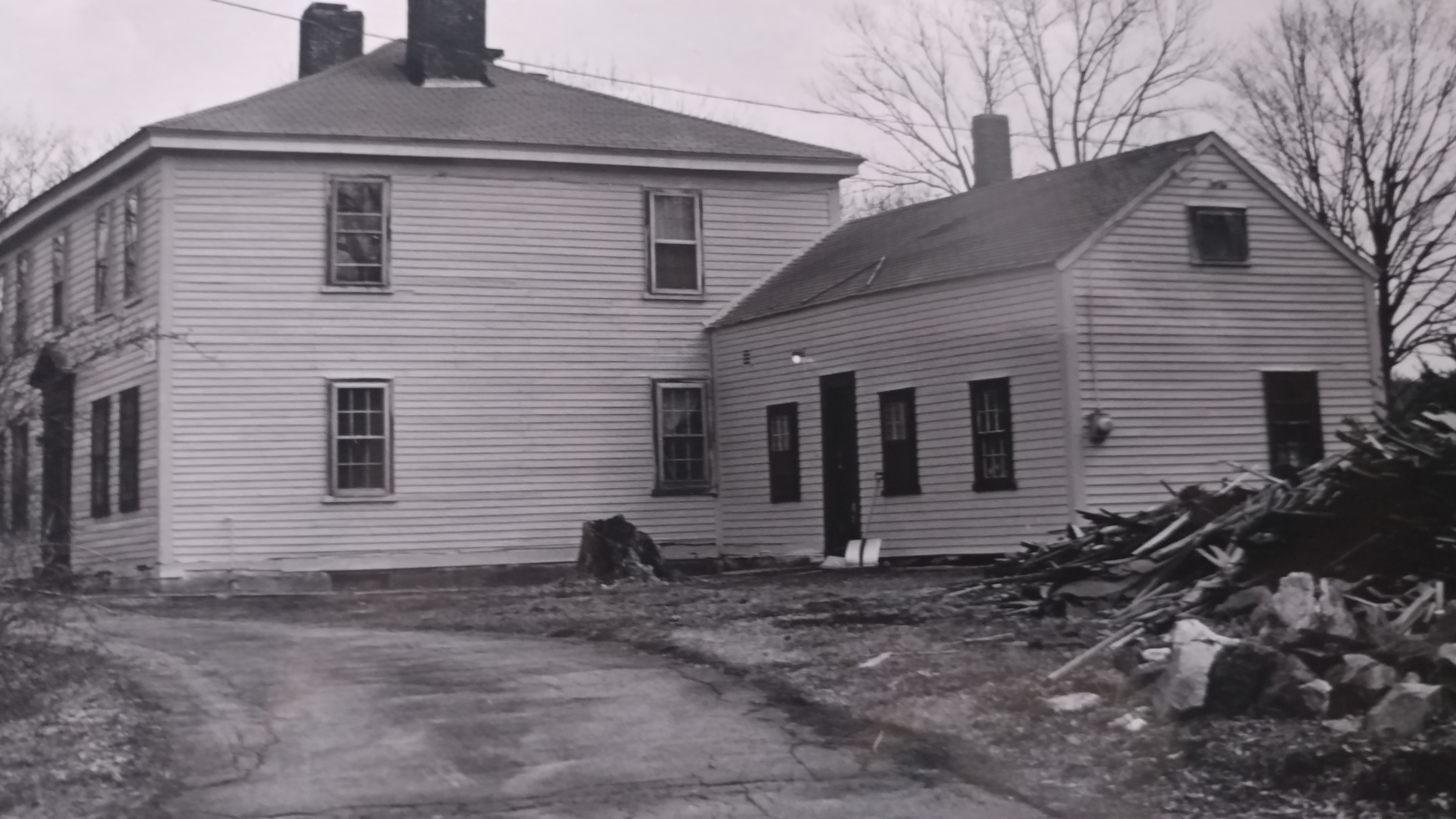 Amos Morse house, west side, in 1983, after grey shingles had been removed and house painted. Original Nat. Reg. photograph.